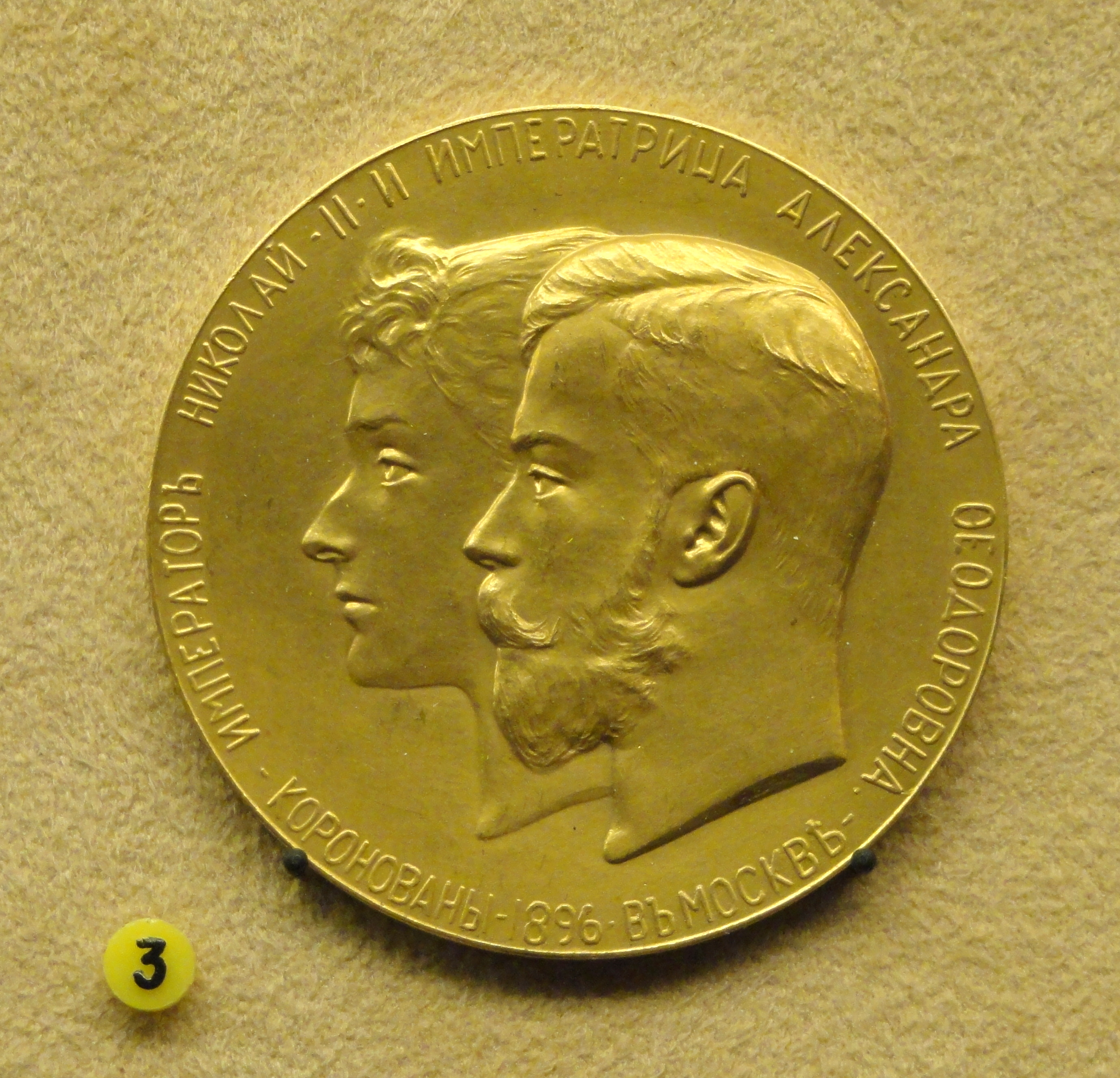 Coin / medal in the National Museum of Finland, Helsinki, Finland. This artwork is in the public domain because the artist(s) died more than 70 years ago.